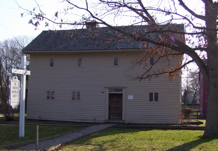 The Eells-Stow House, a historic structure in Milford, Connecticut.